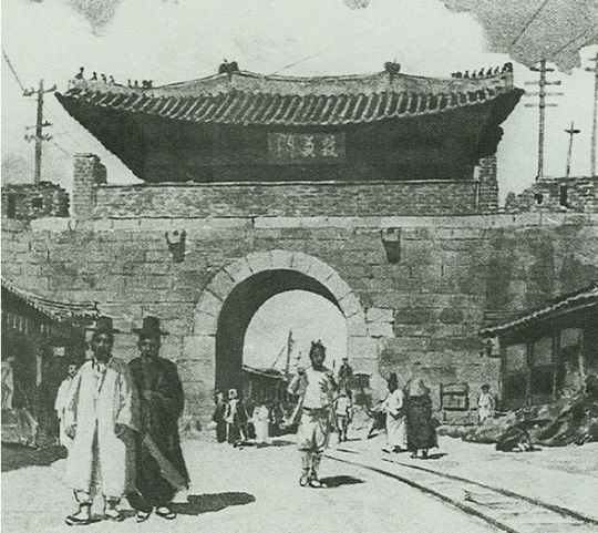 Seodaemun / Donuimun in the Joseon Period